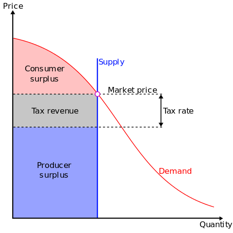 This diagram illustrates the effect of taxation on a market with perfectly inelastic supply and elastic demand.